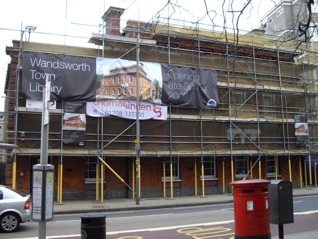 Former Museum Wandsworth The towns museum is now closed and is currently being redeveloped as a library